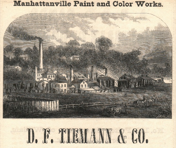 Daniel F. Tiemann's paint factory, circa 1850, where it filled the block behind his mansion on today's Tiemann Place. Collection of Eric K. Washington.